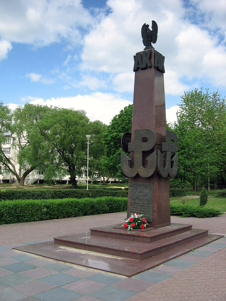 City of Ostroleka (Poland), the Home Army memorial monument.